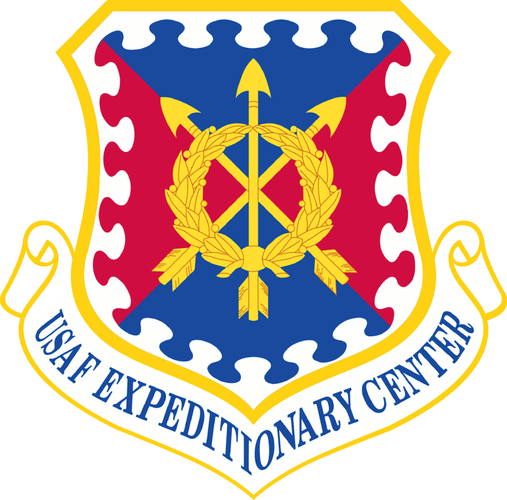 Emblem of the United States Air Force Expeditionary Center (formerly the Air Mobility Warfare Center[1]) of Air Mobility Command of the United States Air Force